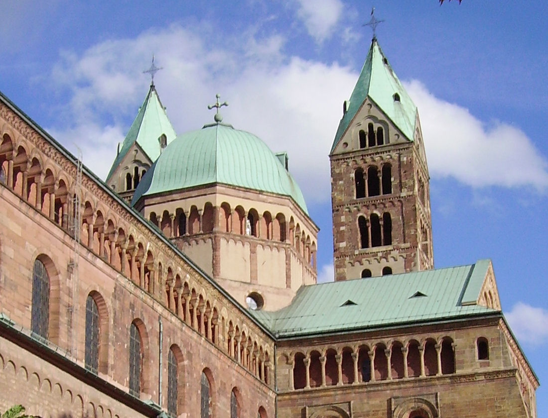 Description: Speyrer Dom (Cathedral of Speyer, Germany) Source: own photography Date: November 2005 Author: --Immanuel Giel 12:16, 7 November 2005 (UTC) Other versions: none Speyrer Dom Dom van Speyer Speyers domkyrka 施派爾大教堂